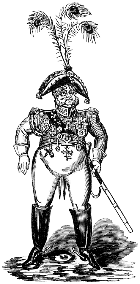 An unflattering caricature of George IV of the United Kingdom as Prince Regent, by George Cruikshank, illustrating "The Political House that Jack Built" by William Hone (1819). The three ostrich plumes of the Prince of Wales' "Ich Dien" badge seem to be replaced with somewhat bedraggled peacock feathers...